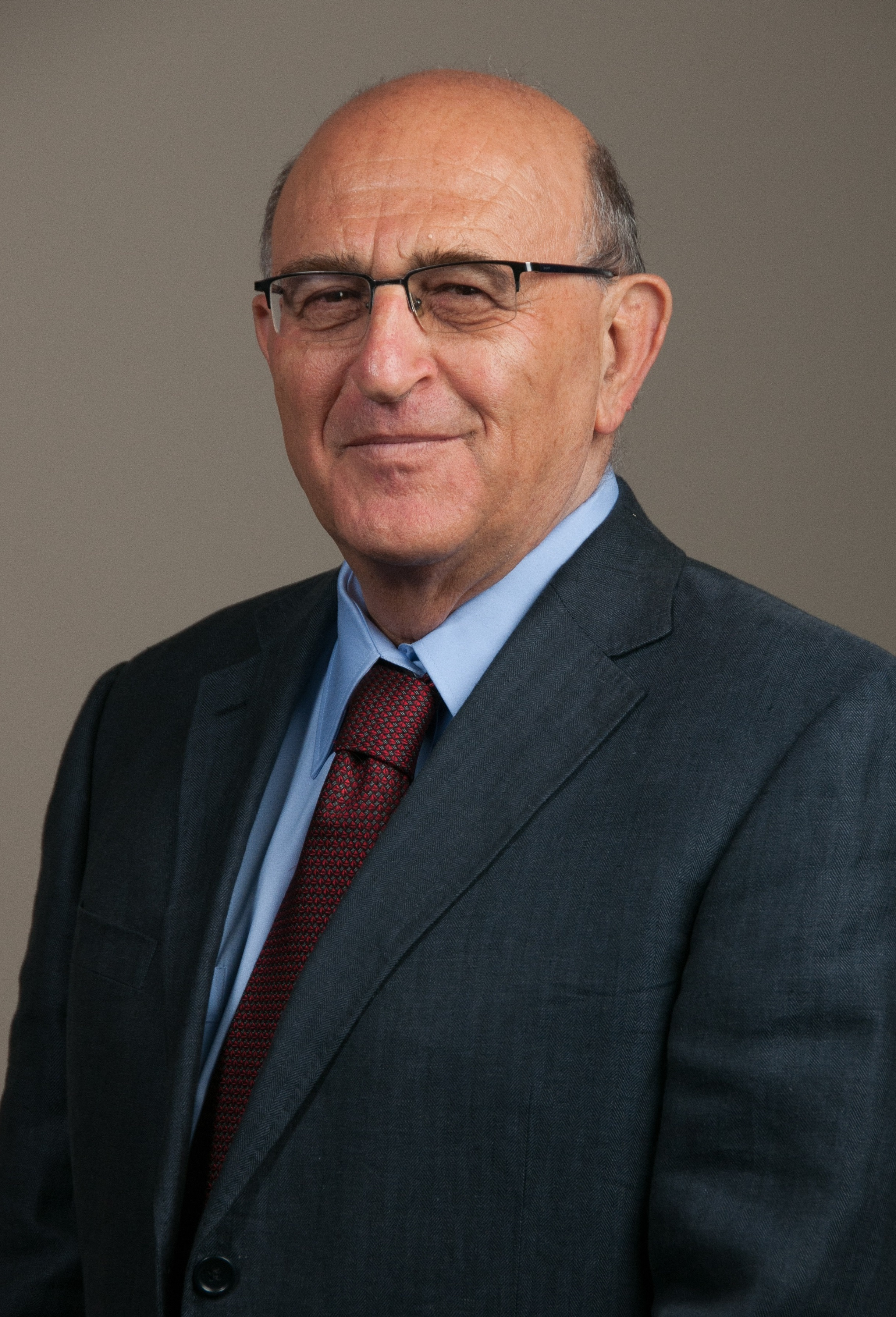 Arnon Mantver Portrait